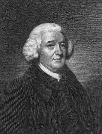 Portrait of Samuel Medley (1738–1799), English Baptist minister and hymn-writer.